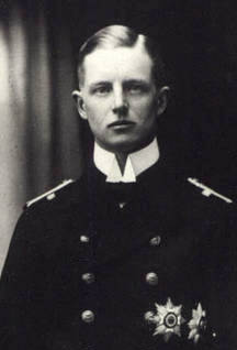 Hereditary Prince Friedrich of Holstein-Glücksburg